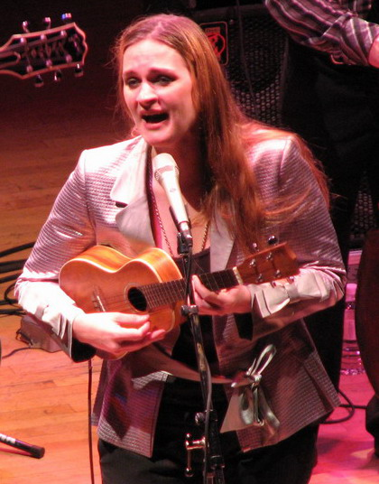 Photo of Madeleine Peyroux (born 1974 in Athens, Georgia)